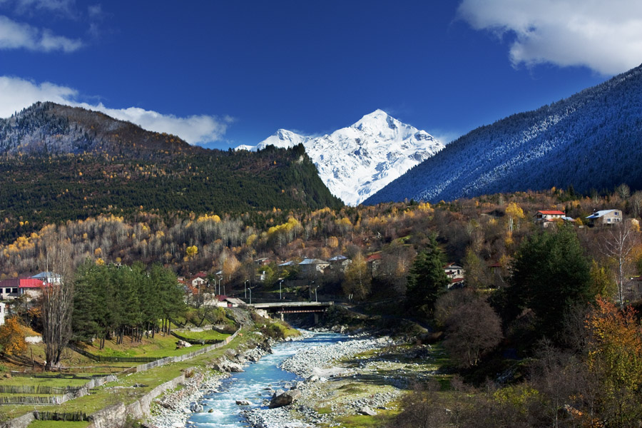 Mestia, Georgia — View of Mestia